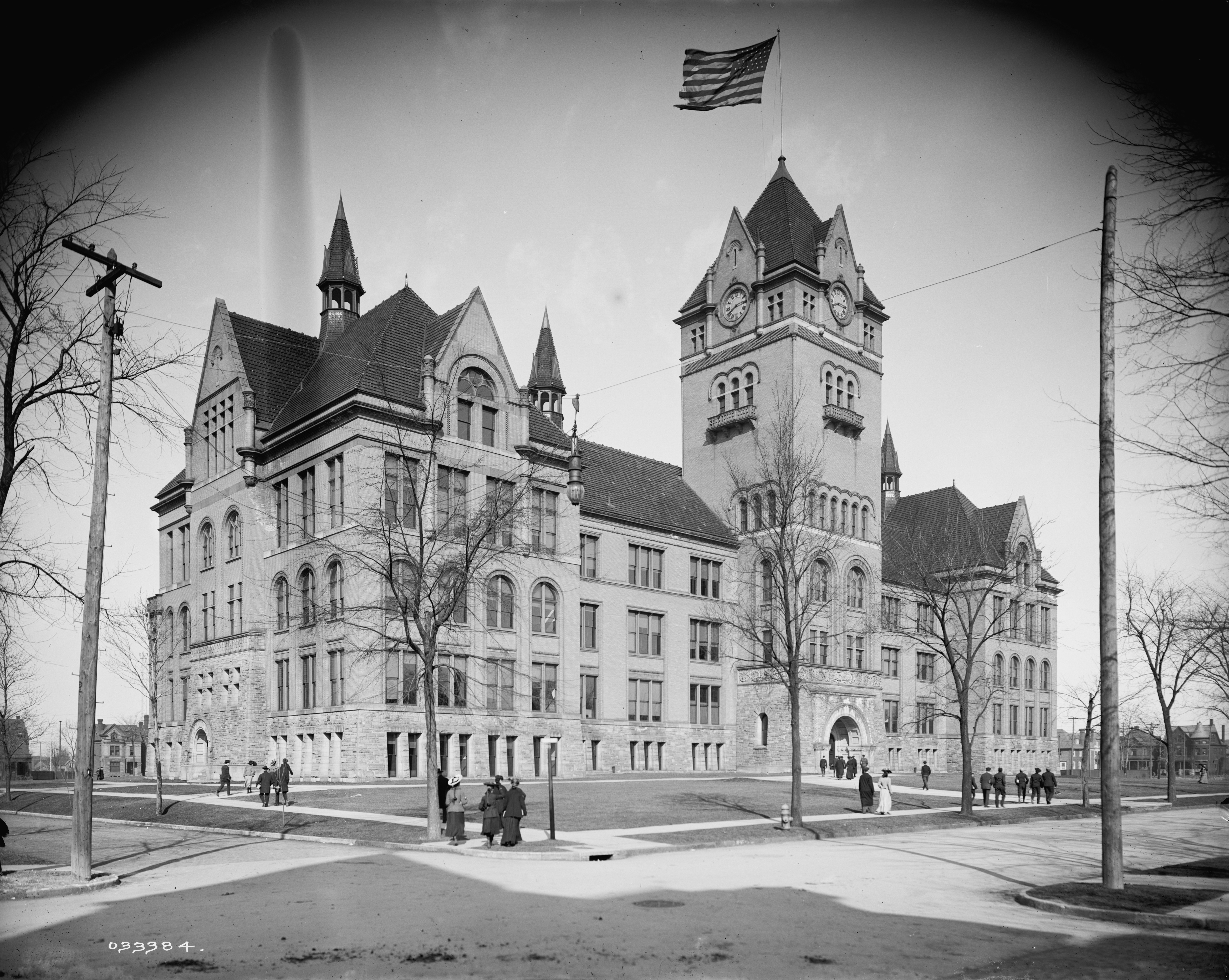 Central High School in Detroit, Michigan. Later became the Old Main building at Wayne State University.